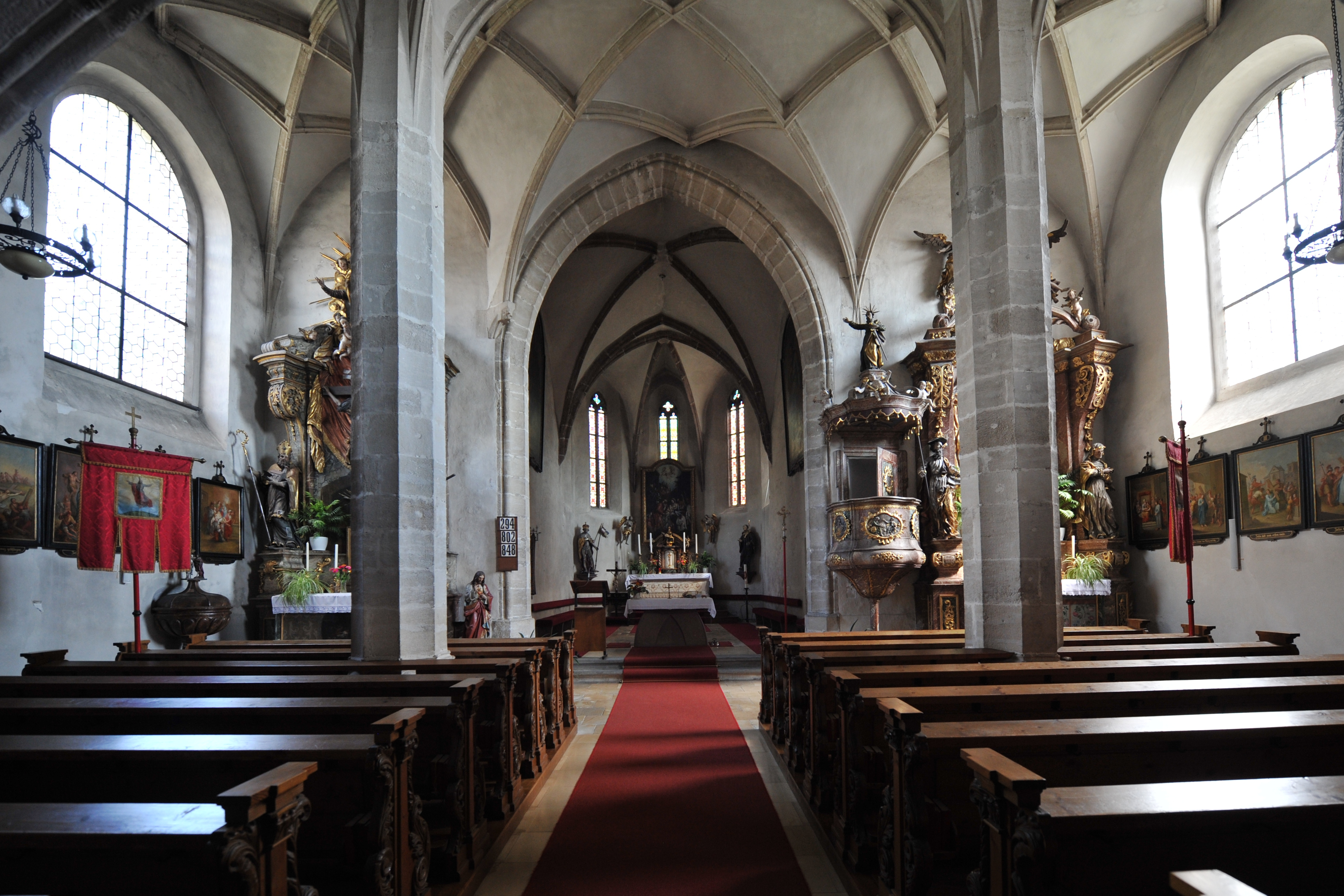 The making of this work was supported by Wikimedia Austria. For other files made with the support of Wikimedia Austria, please see the category Supported by Wikimedia Österreich. Klein-Pöchlarn: Kath. Pfarrkirche hl. Othmar und Friedhof